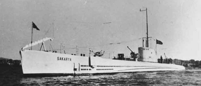 Turkish submarine Sakarya